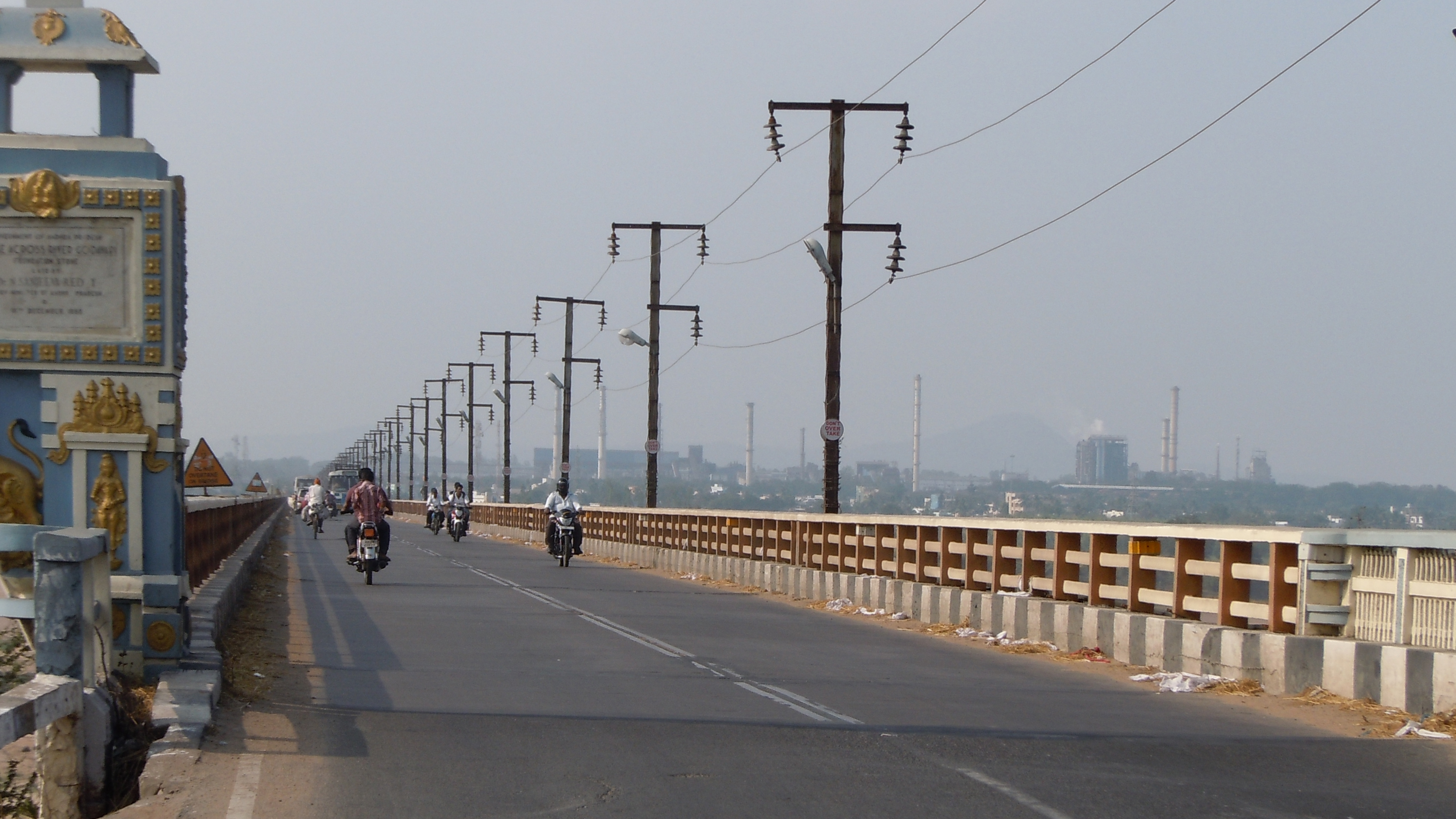 Entrance of Godavari Bridge at Bhadrachalam, Khammam district